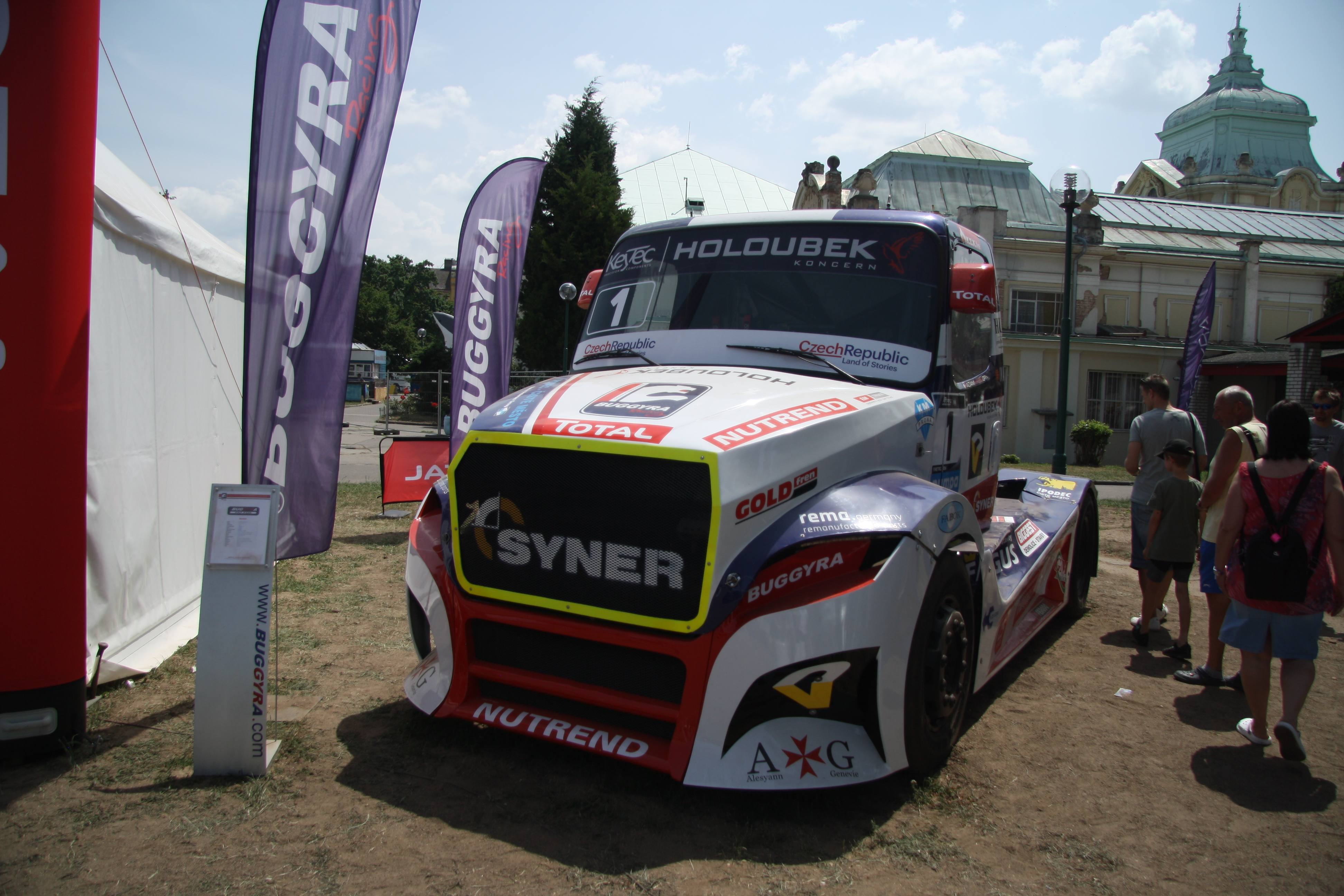 Buggyra truck at Legendy 2018 in Prague.